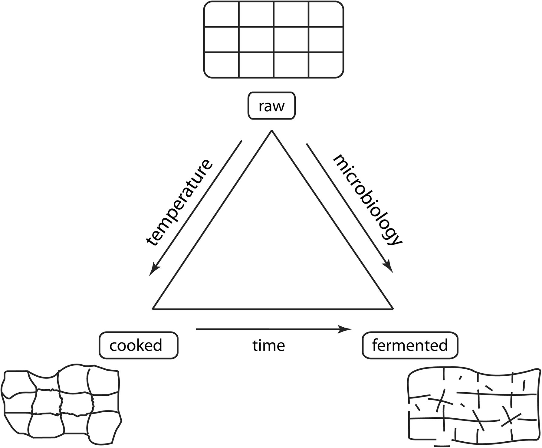 The physical interpretation of the culinary triangle. Temperature changes the structure (symbolically drawn as lattice) physically: polysaccharides and corresponding cell structures become softer, proteins denature. Microbiology changes the structure by destroying certain structural elements. Long cooking implies hydrolysis of certain structural polymers, too.